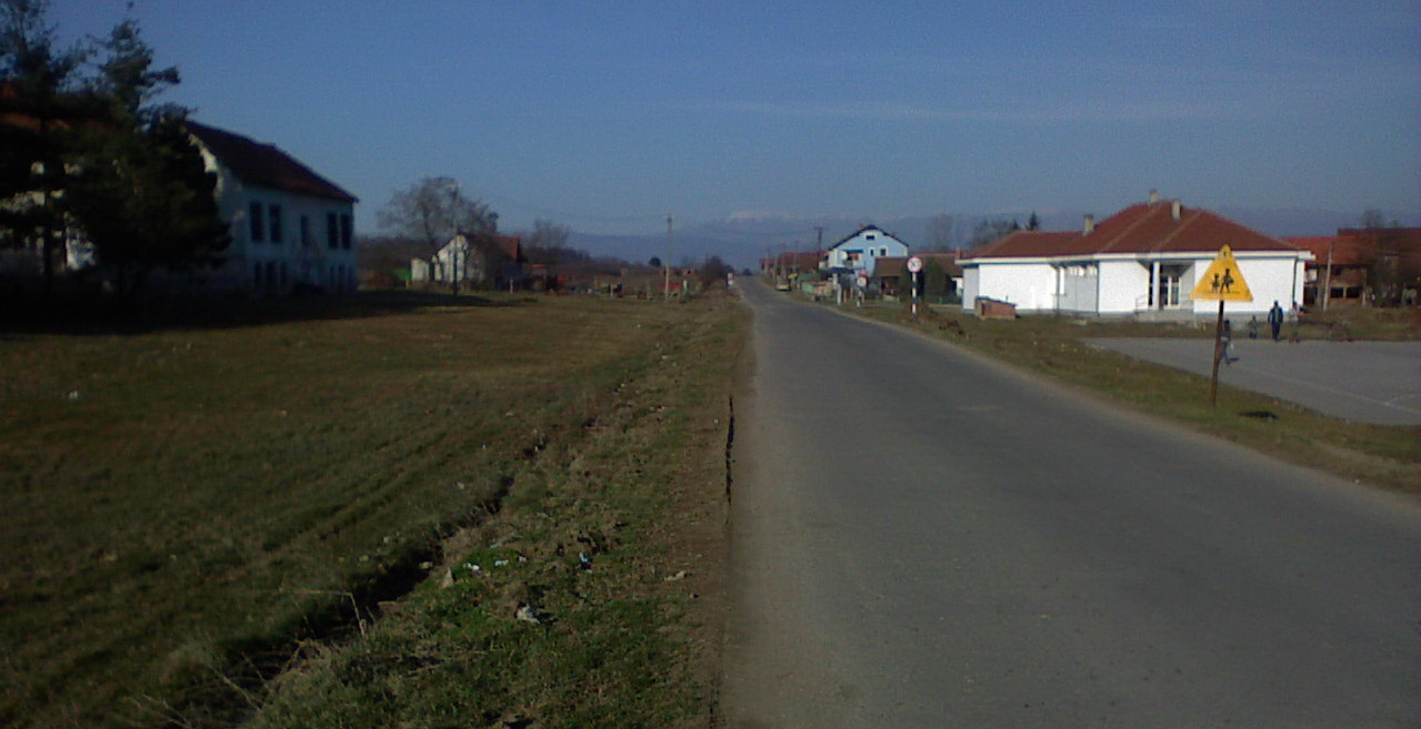 Gornja Jajina, Serbia